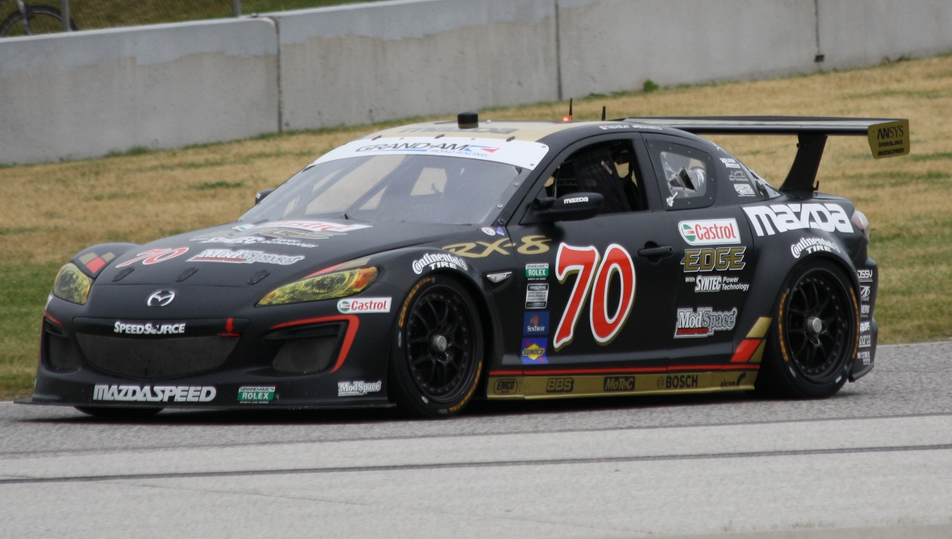 The SpeedSource GT car driven by Jonathan Bomarito and Sylvain Tremblay at a 2012 race at Road America.